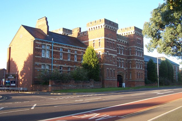 Kempston Barracks This is all (apart from a small piece of wall) that remains of the barracks, known locally as The Keep.